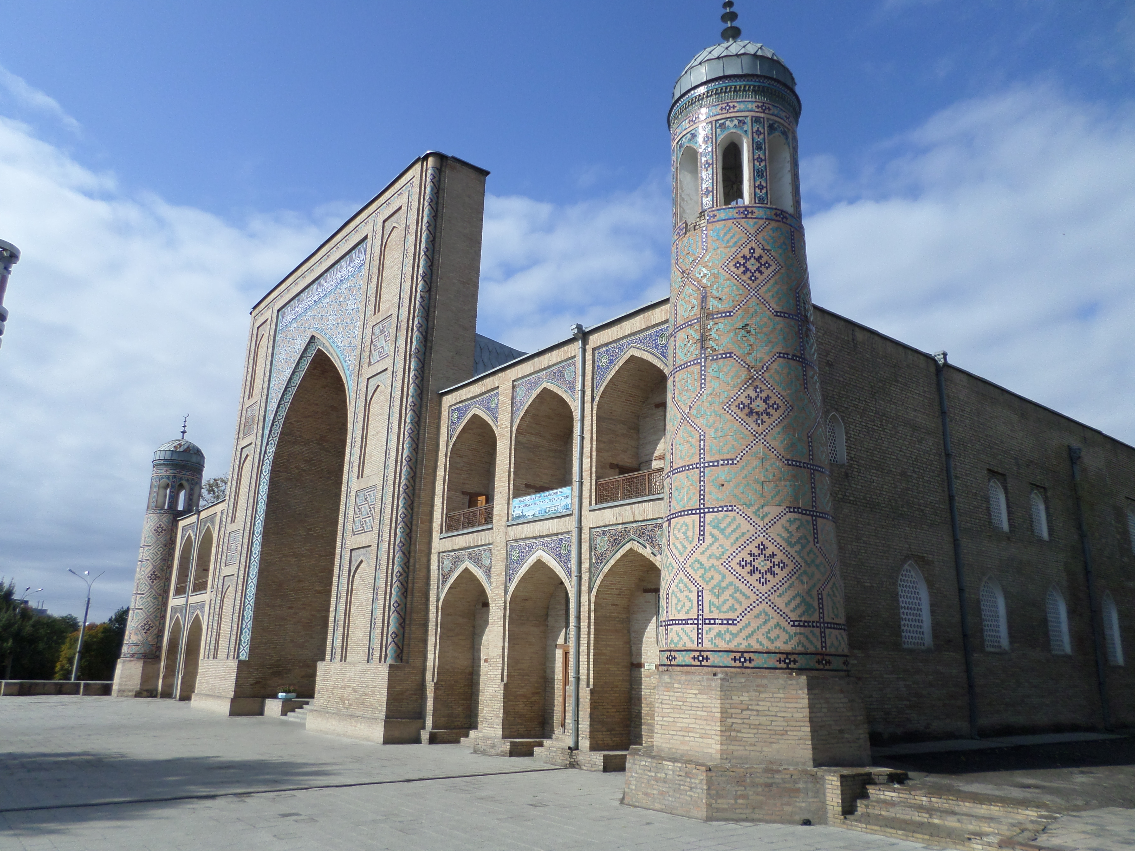 Madrasah Kukaldash (Tashkent)